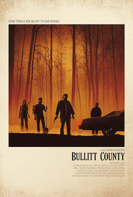 This is the official poster for the 2018 feature film Bullitt County